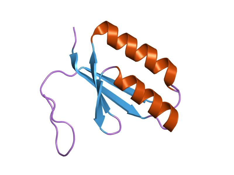 Cartoon representation of the molecular structure of protein registered with 1zpw code.